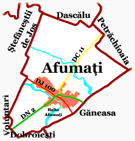 Map of Afumati.